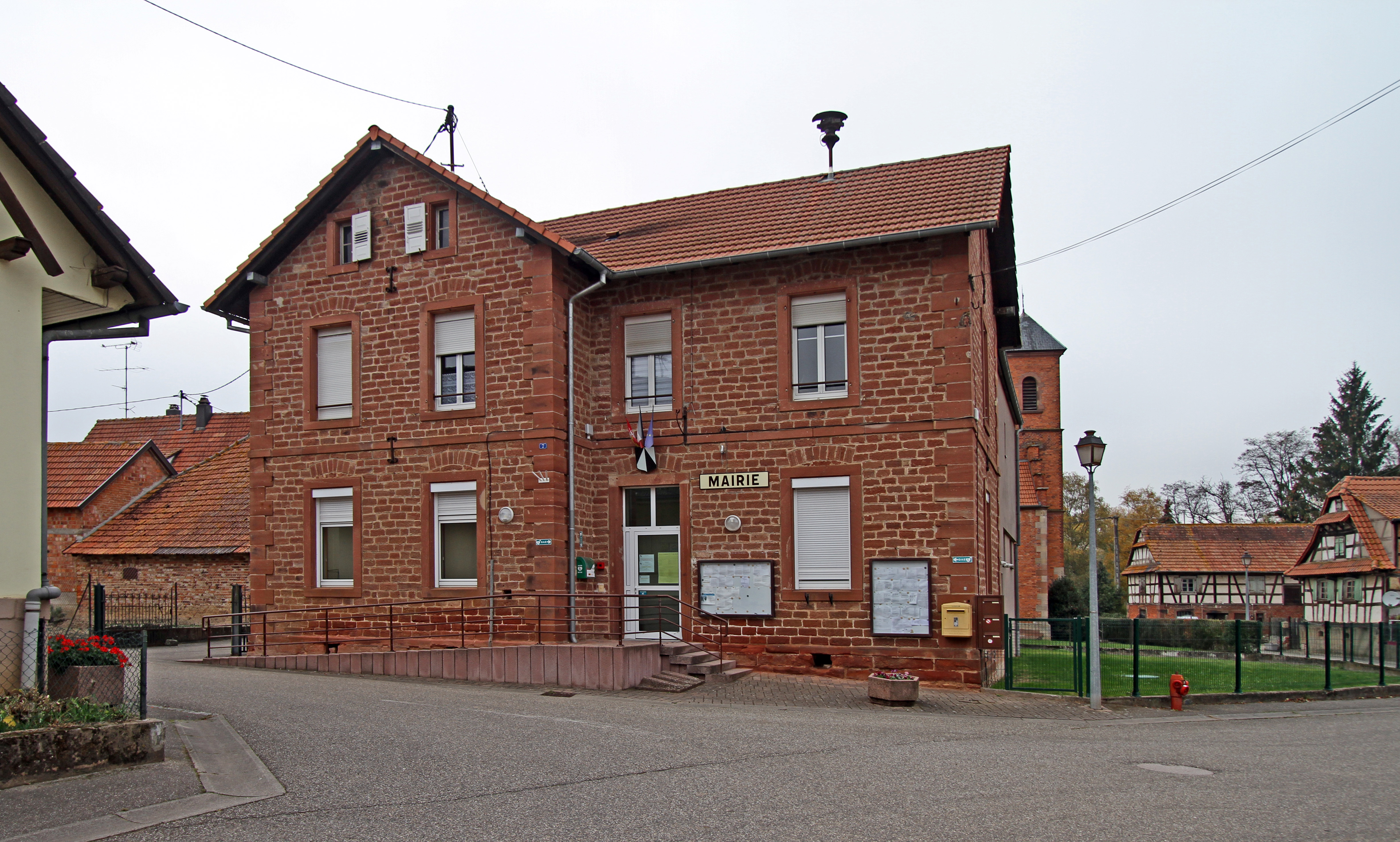 Town hall of Ingolsheim.